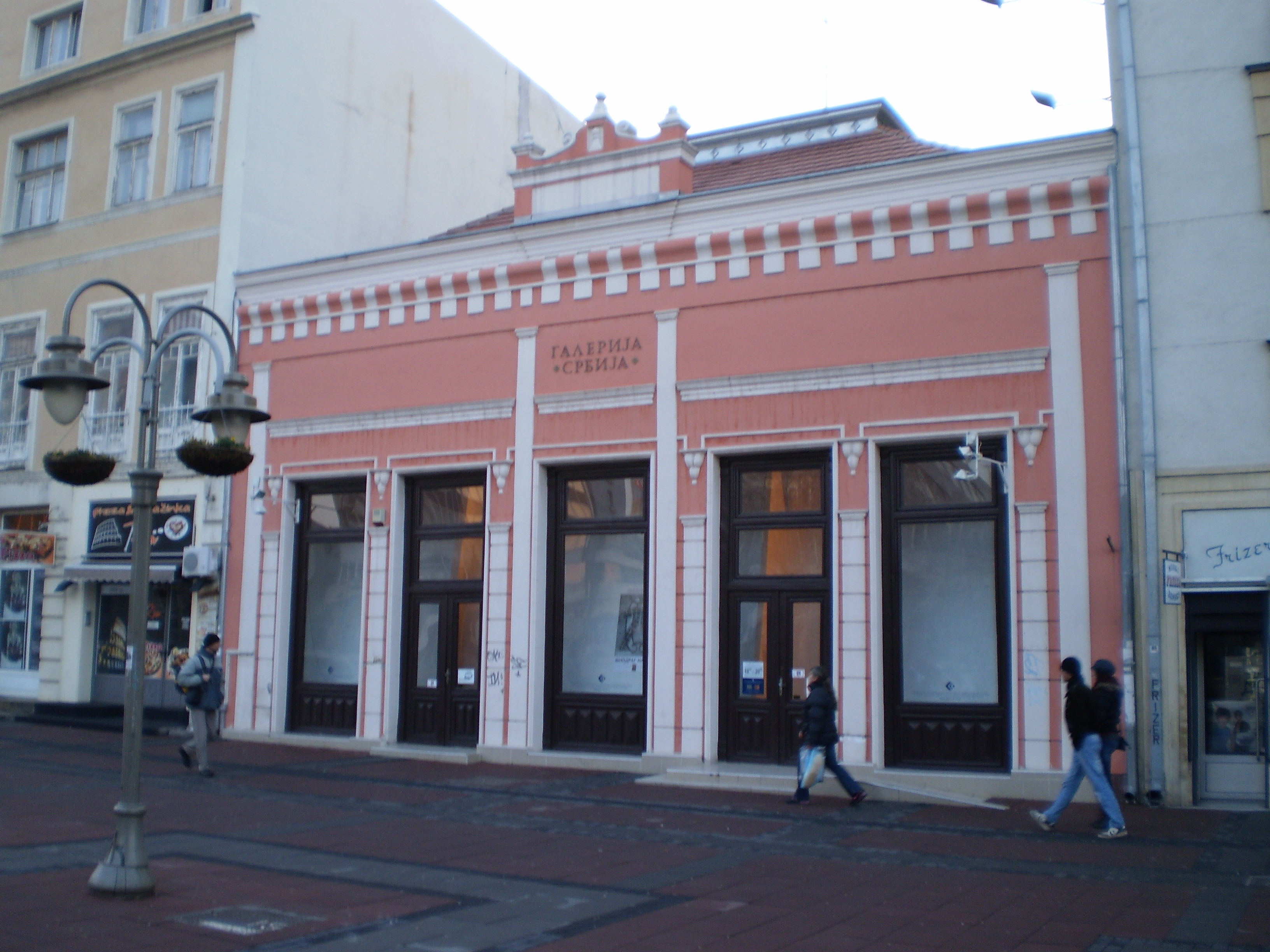 The Gallery of Contemporary Fine Arts Niš, Serbia-Gallery "Serbia" Srpski (latinica): Galarija "Srbija" u Nišu. Autor dr Milorad Dimić